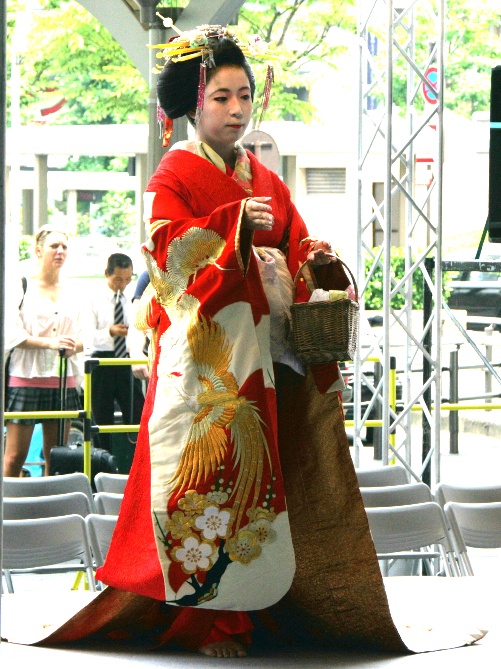 Furisode tayu from Wachigaiya teahouse in Shimabara, Kyoto.